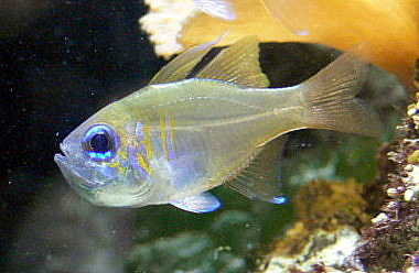 Apogon leptacanthus